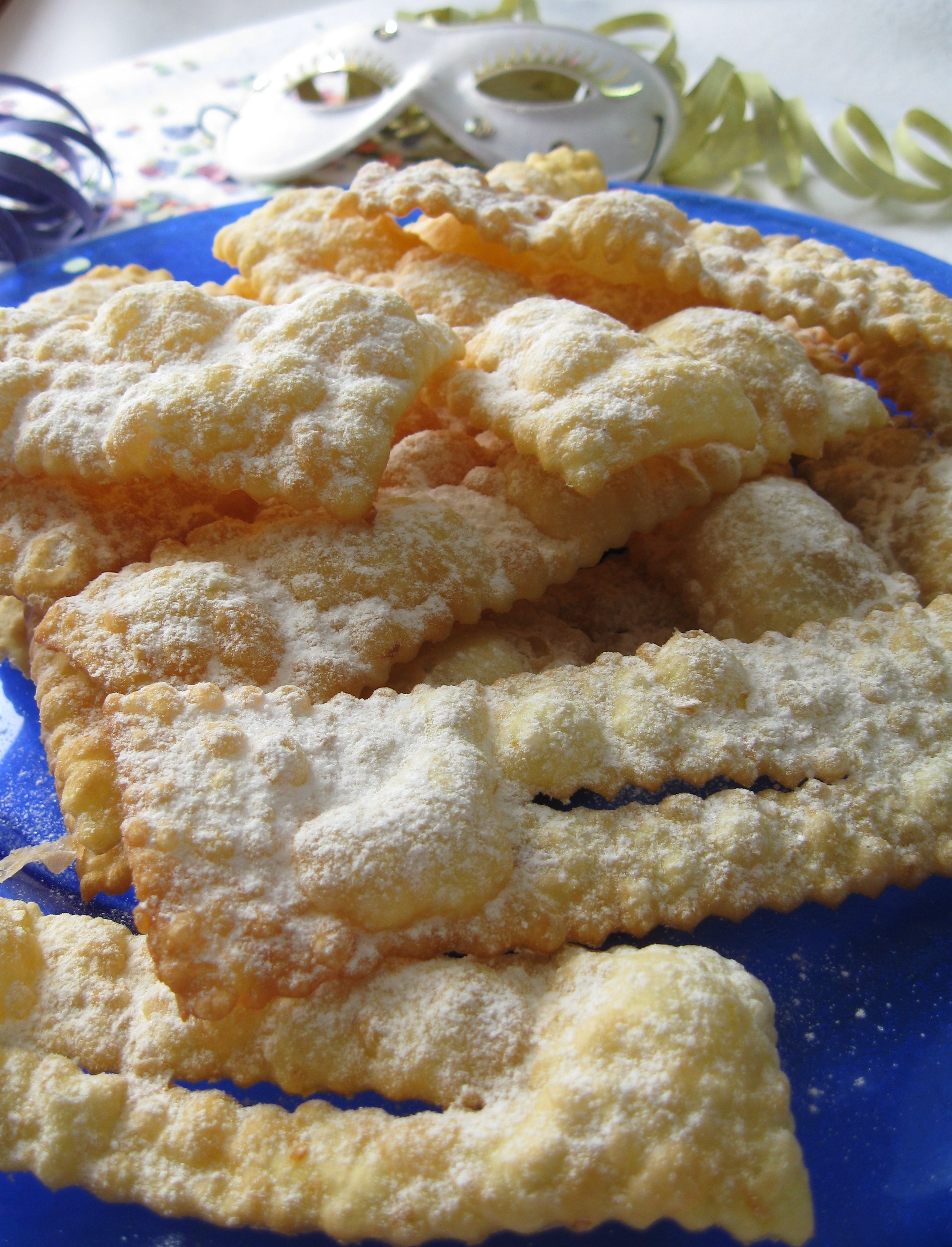 Italian carnival sweets, with powdered sugar, known as scorpelle, bugie, cenci, chiacchiere, cròstoli, galani, lasagne, lattughe, pampuglie, rosoni sfrappole or frappe.